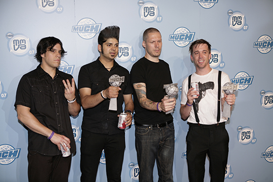 Billy Talent was an attendee at the 2007 MuchMusic Video Awards, held the night of Sunday, June 17, 2007 in Toronto, Ontario, Canada.